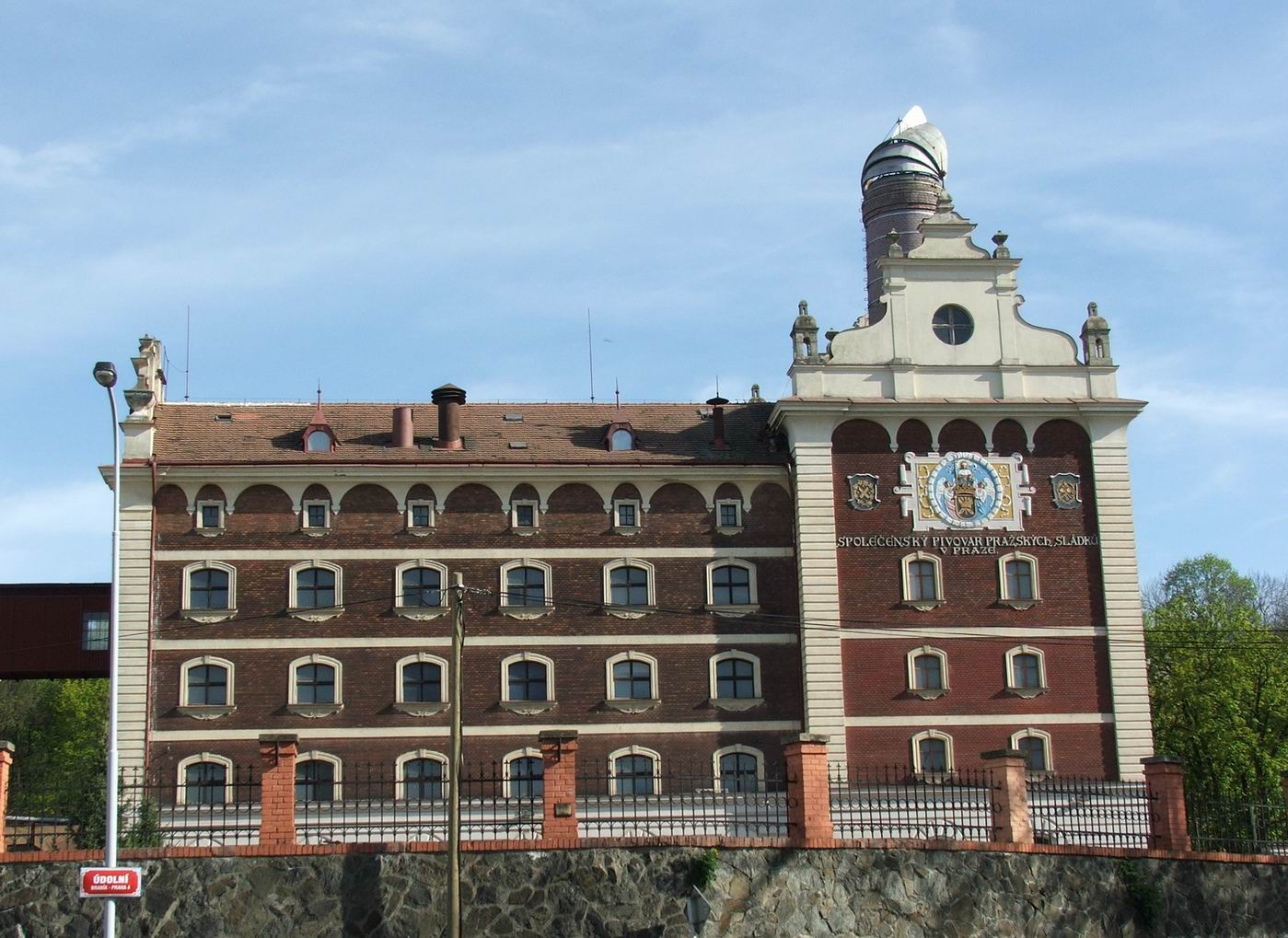 Braník Brewery in Prague, unfortunately no longer used as brewery